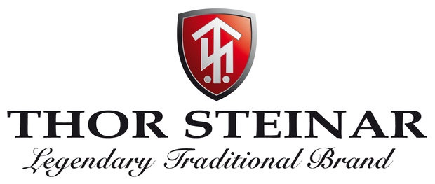 Logo of Thor Steinar, a German sportswear company